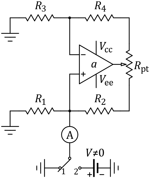 Howland Current Source - Calibration